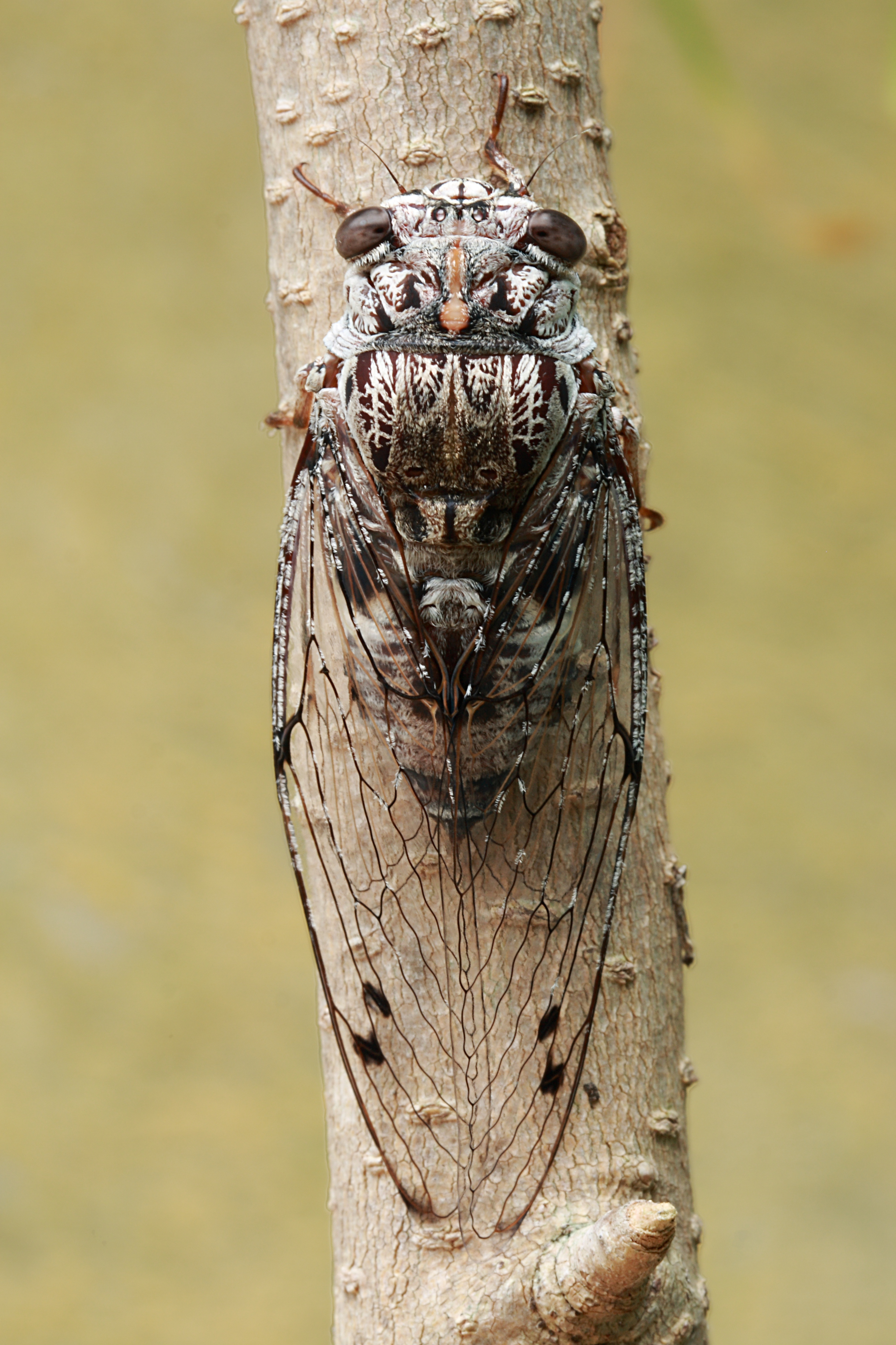 Floury Baker (Abricta curvicosta) cicada (back) in Sydney, NSW, Australia.